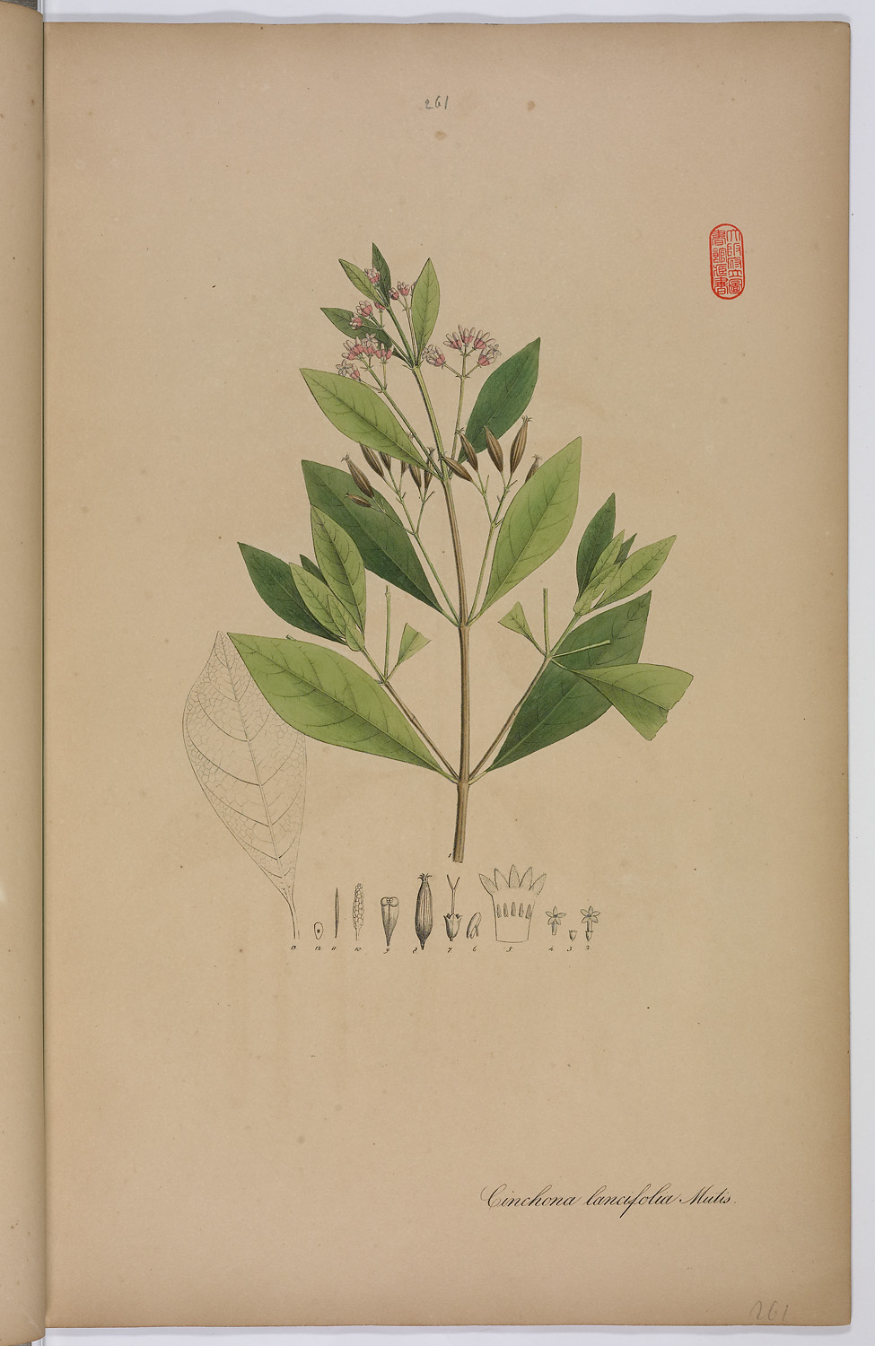 Drawing by T.F.Nees von Esenbeck published in his book Plantae officinales, oder, Sammlung officineller Pflanzen (Düsseldorf, 1828-1833)